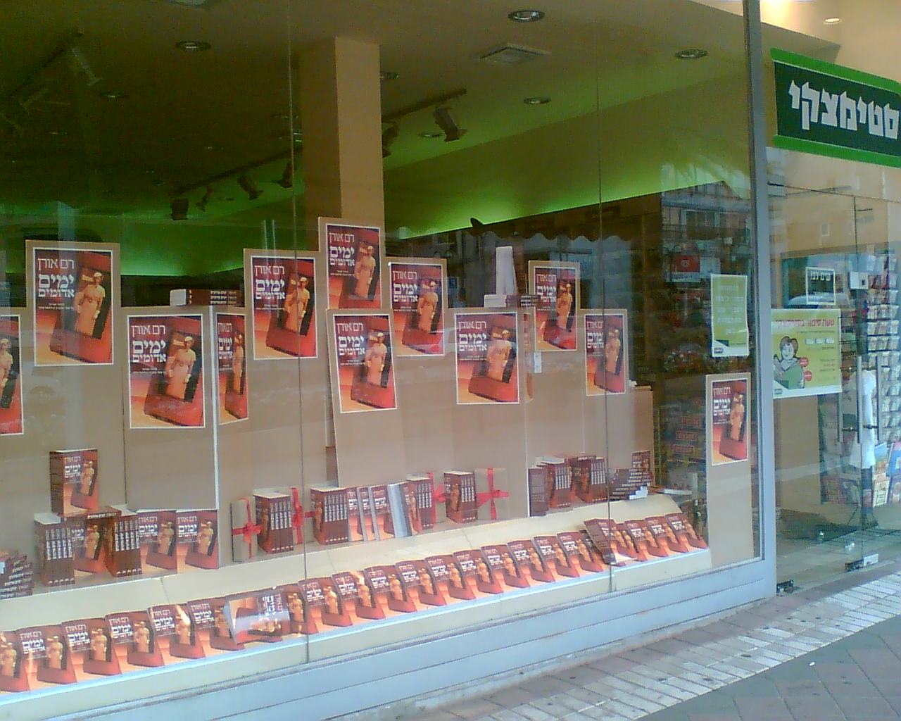 A Steimatzky store in Ramat HaSharon. The book on display is Ram Oren's 2006 novel "Yamim Adumim" (Red Days) "ימים אדומים".